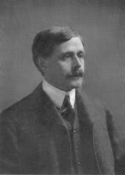 Arthur Laban Bates (1859-06-06 - 1934-08-26), U.S. Representative from the state of Pennsylvania (1901-1913).